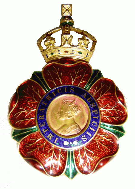 Neck badge of a Knight Commander of the Order of the Indian Empire